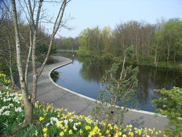 Dodder Valley Park Pond Pond in Dodder Valley / Bushy Park